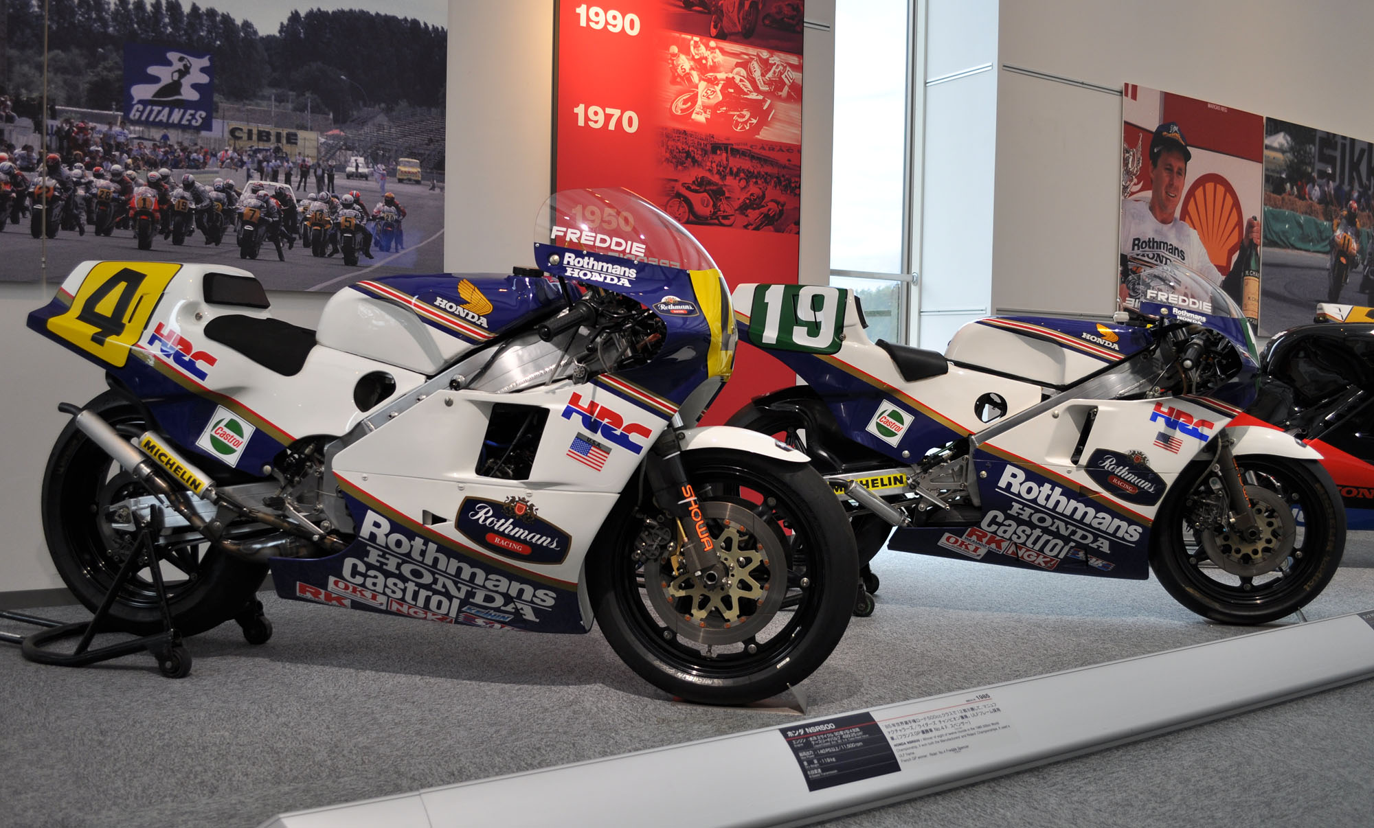 Honda NSR500 & RS250R-W (Freddie Spencer, 1985)